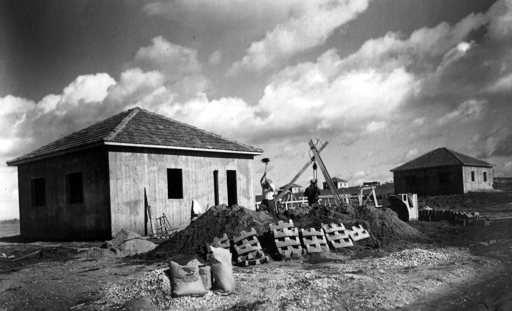 Moshav Beit-Itzhak, Settlements in Israel